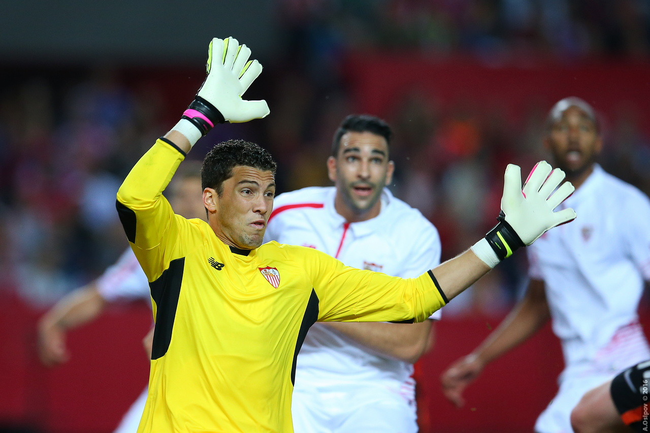 EFA Europa League 2015/16. Semi-finals. Return leg. May 5, 2016. Spain. Seville. Ramon Sanchez Pizjuan. 17 oC. Att: 41,269. Sevilla, Spain 3-1 (1-1) Shakhtar Donetsk, Ukraine Goals: 1-0 Gameiro (9), 1-1 Eduardo (44), 2-1 Gameiro (47), 3-1 Mariano Ferreira (59) Sevilla: Soria, Tremoulinas (Escudero, 74), Rami, Krychowiak, Carriço, Gameiro (Iborra, 82), N'Zonzi, Banega (Cristoforo, 89), Vitolo, Coke (c), Mariano Ferreira Unused subs: Rico, Pareja, Konoplyanka, Llorente Head coach: Unai Emery Shakhtar: Pyatov, Srna (c), Kucher, Rakits’kyy, Ismaily, Stepanenko, Malyshev, Kovalenko, Taison (Bernard, 76), Marlos (Nem, 84), Eduardo (Dentinho, 84) Unused subs: Kanibolotskyi, Kobin, Ordets, Facundo Ferreyra Head coach: Mircea Lucescu Booked: Marlos (11), Rakits’kyy (14) Kucher (20), Banega (30), Srna (48), Eduardo (61), Stepanenko (76), Vitolo (87), Ismaily (90) Referee: Bjorn Kuipers (Netherlands)